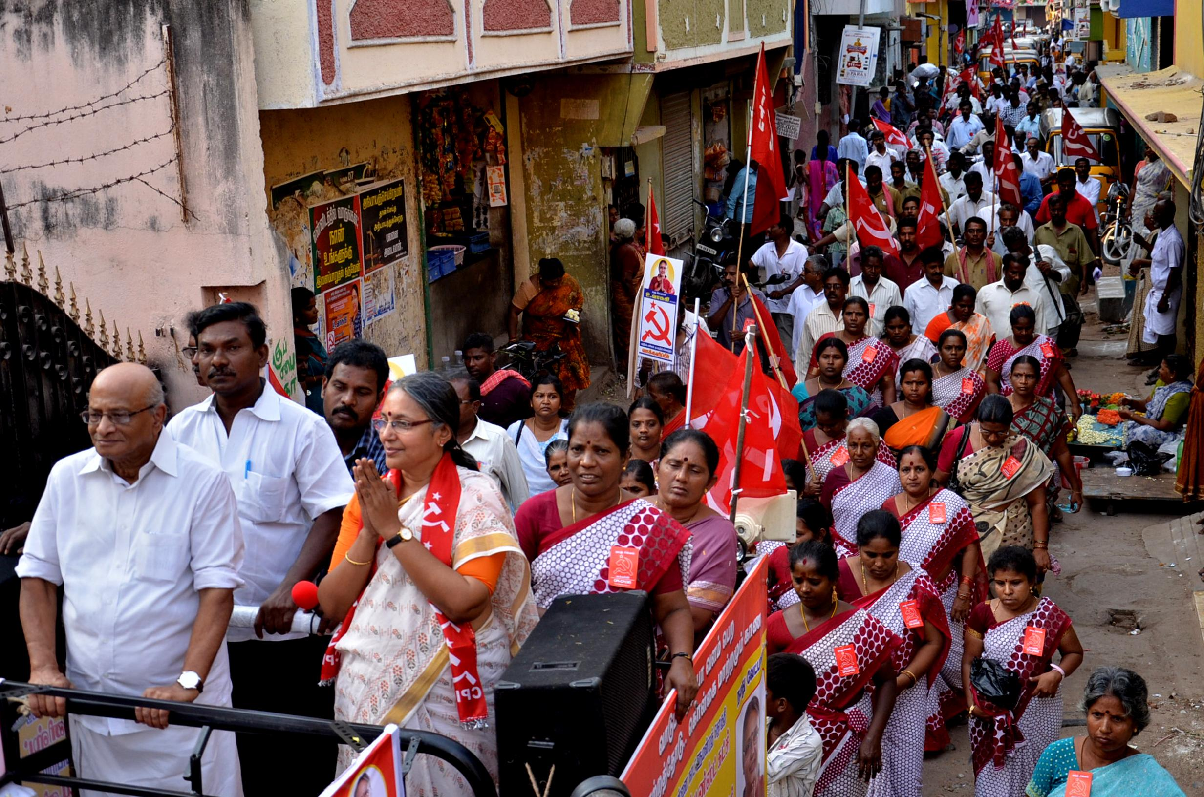 CPI(M) North Chennai Candidate U.Vasuki Election Campaign with T.K.Rangarajan